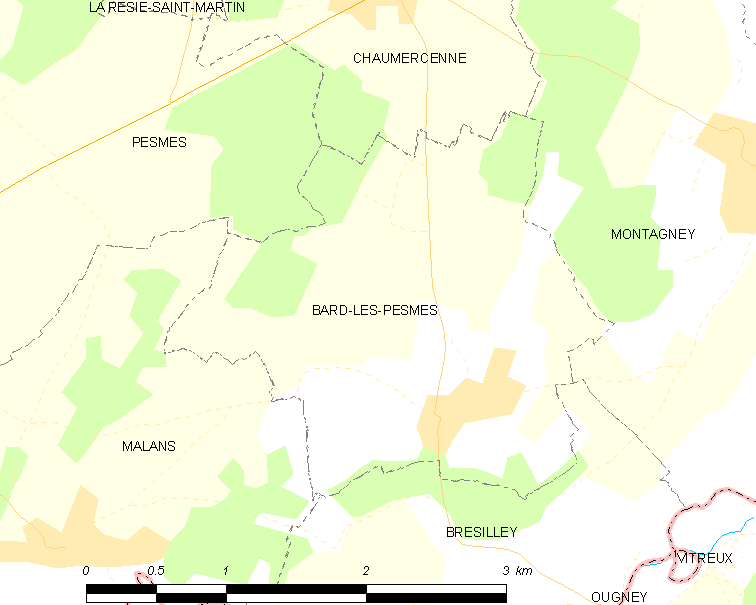 Map of French municipality